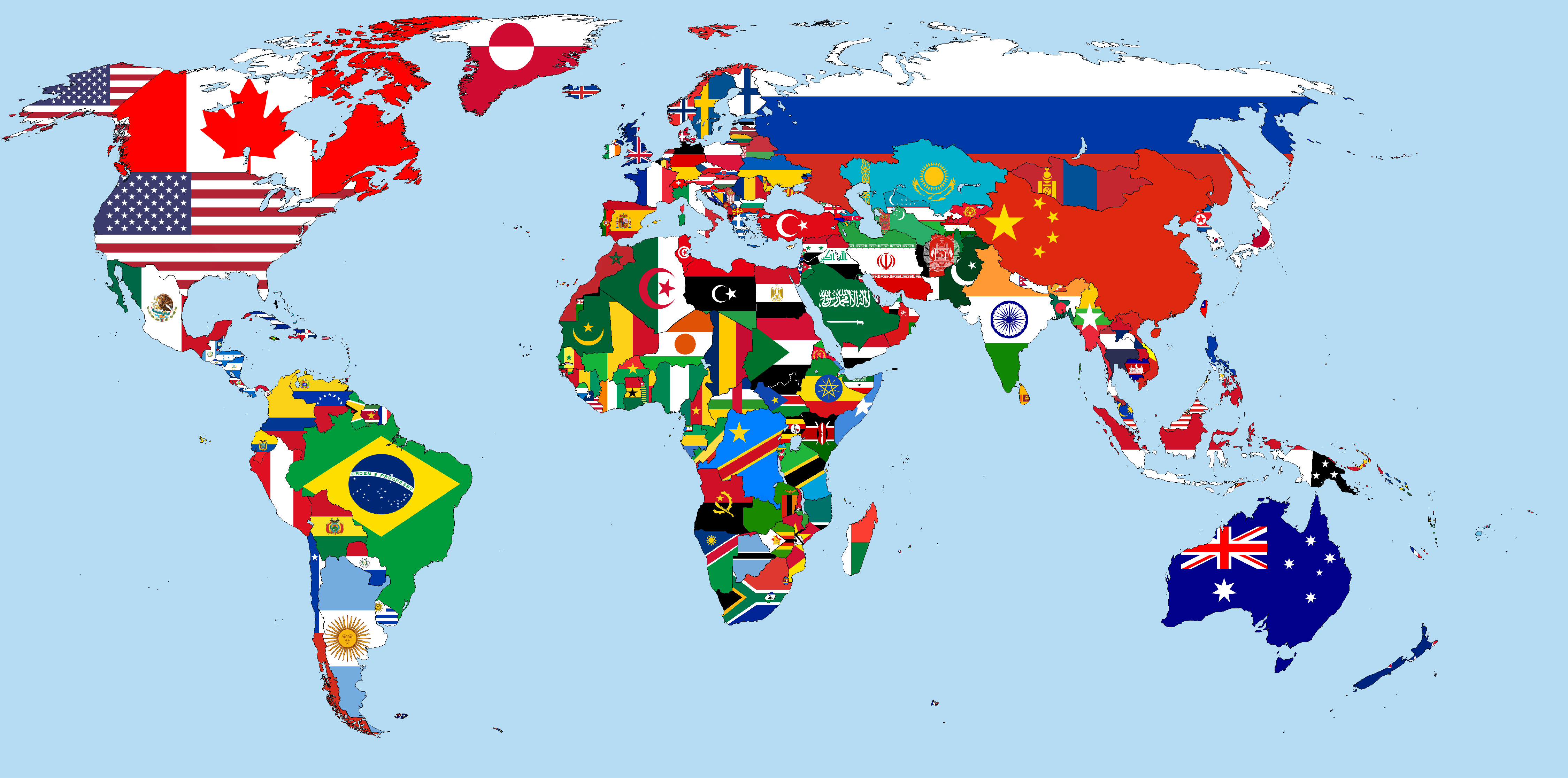 Flags map in 2015 Flag maps of the world for historical use 1789 · 1900 · 1908 · 1914 · 1930 · 1935 · 1938 · 1942 · 1965 · 1970 · 1972 · 1974 · 1989 · 1990 · 1991 · 1992 · 1993 · 2010 · 2012 · 2013 · 2015 · 2016 · 2017 · 2018 (this template: • view • discuss )